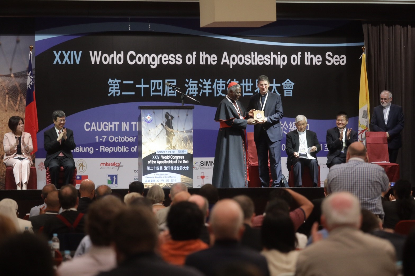 授權方式及範圍：中華民國總統府│政府網站資料開放宣告 Authorization Method & Scope: Office of the President, Republic of China (Taiwan) | Government Website Open Information Announcement